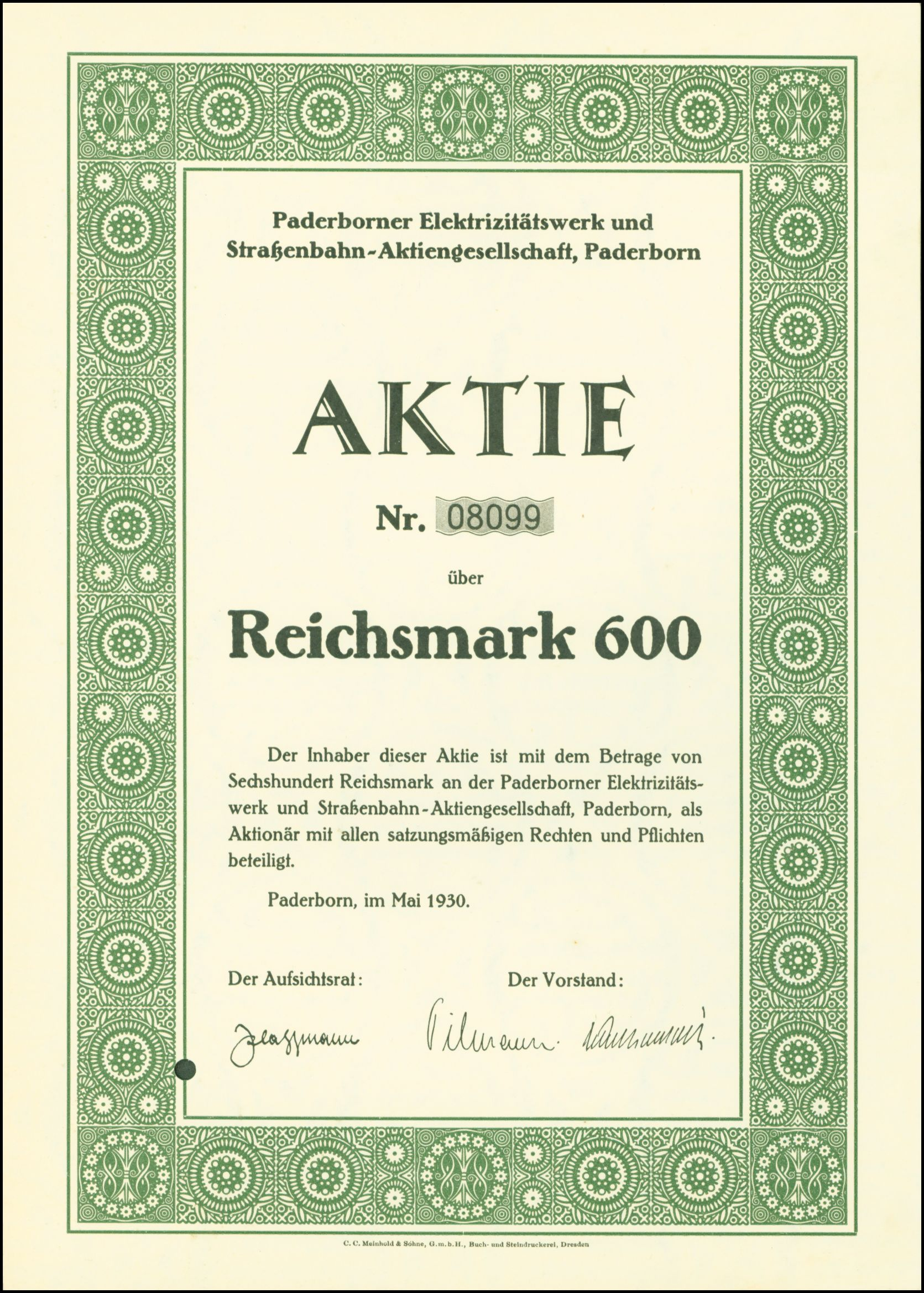 Share of the Paderborner Elektrizitätswerk und Straßenbahn-AG, issued May 1930